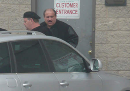 Michael Sarno (left) and Salvatore Cataudella in an FBI surveillance photo that was introduced at Sarno’s trial last year.